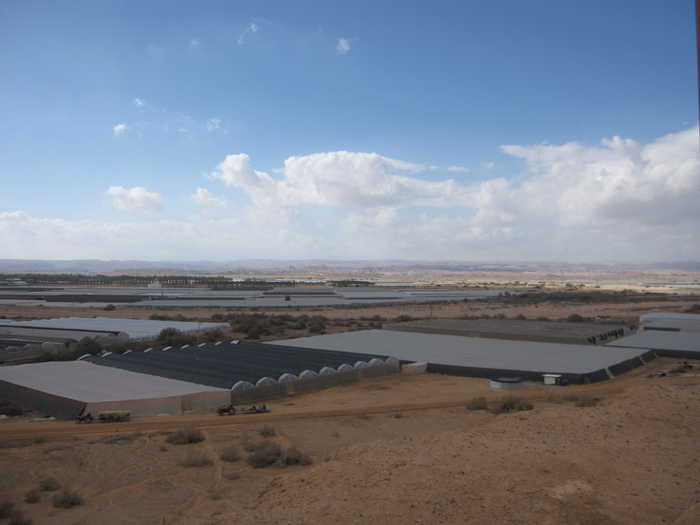 Ein -yahav, Agriculture in Israel